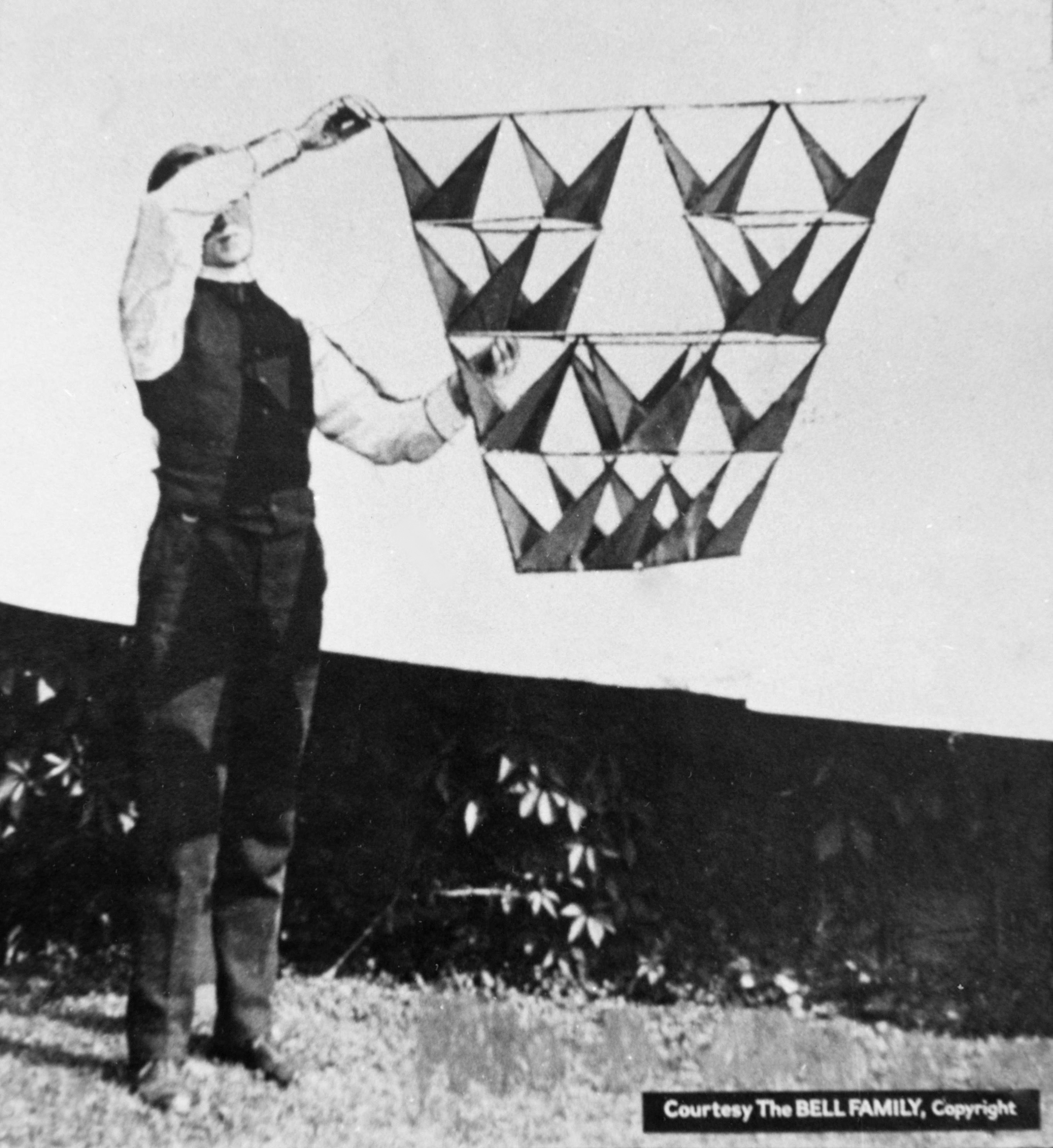 A view of one of the project workman holding an early design of the tetrahedron kite, with opposing triangular vanes, photographed outside against a white sheet.